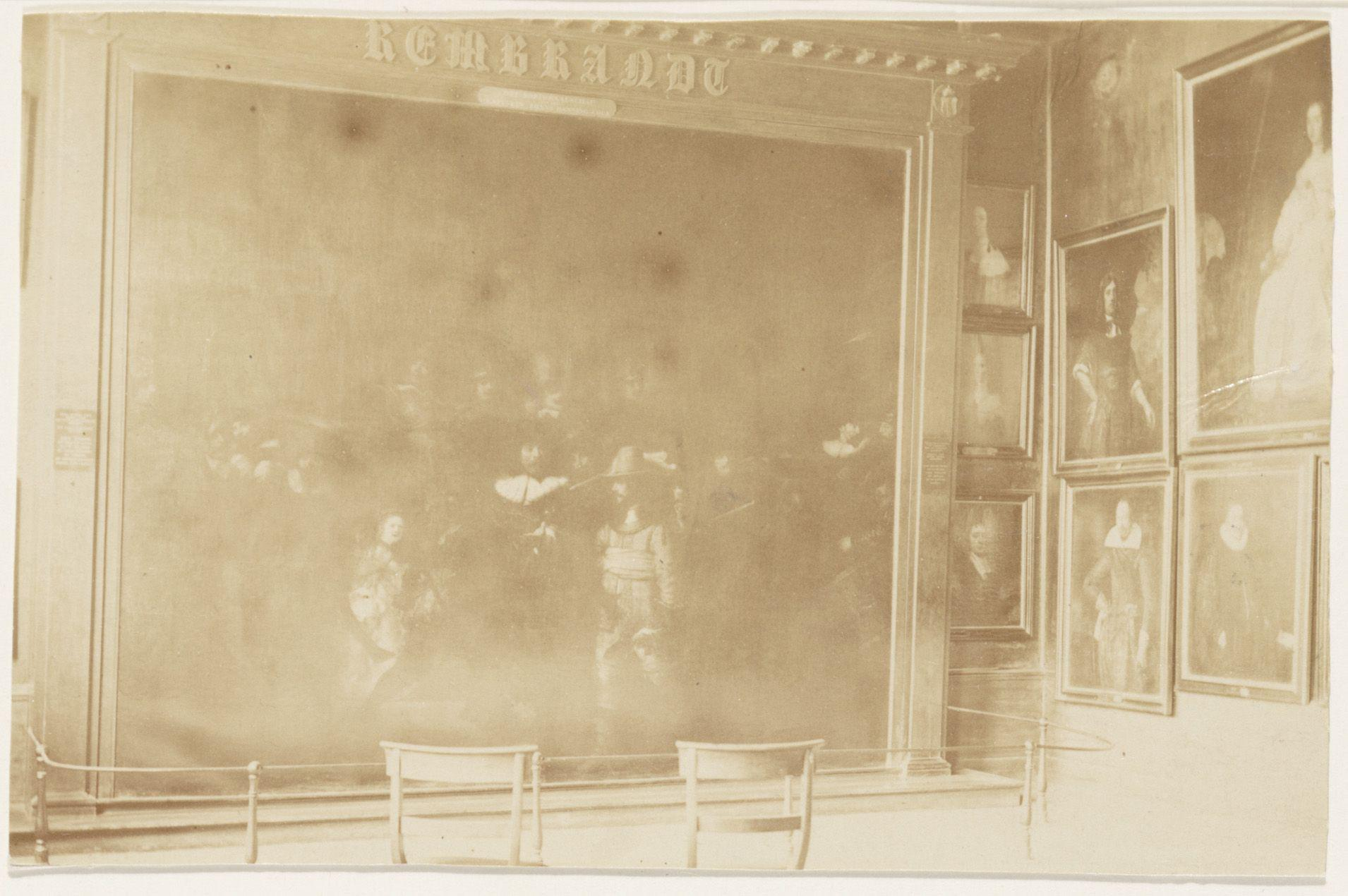 Rijksmuseum Amsterdam, Trippenhuis, Kloveniersburgwal 29, Amsterdam, interior. Photo. Amsterdam, Stadsarchief Amsterdam.